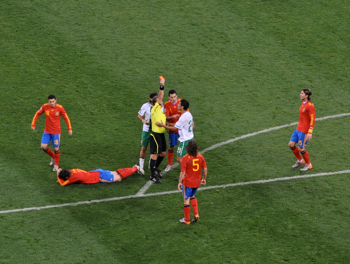 red card at the Spain and Portugal match at the FIFA World Cup 2010